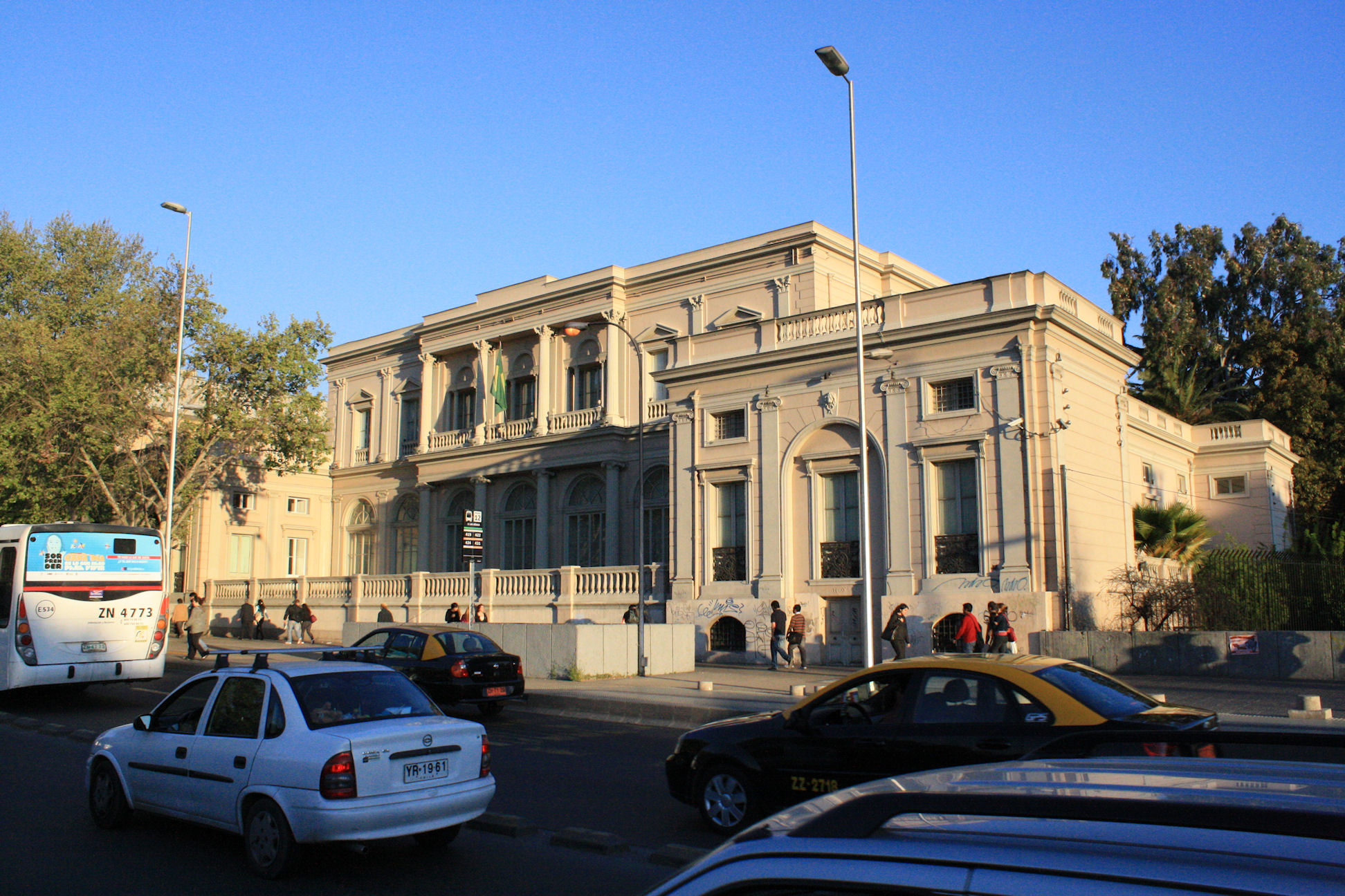 It's in Av Libertador Bernardo O'Higgins and is now the Brazilian Embassy.